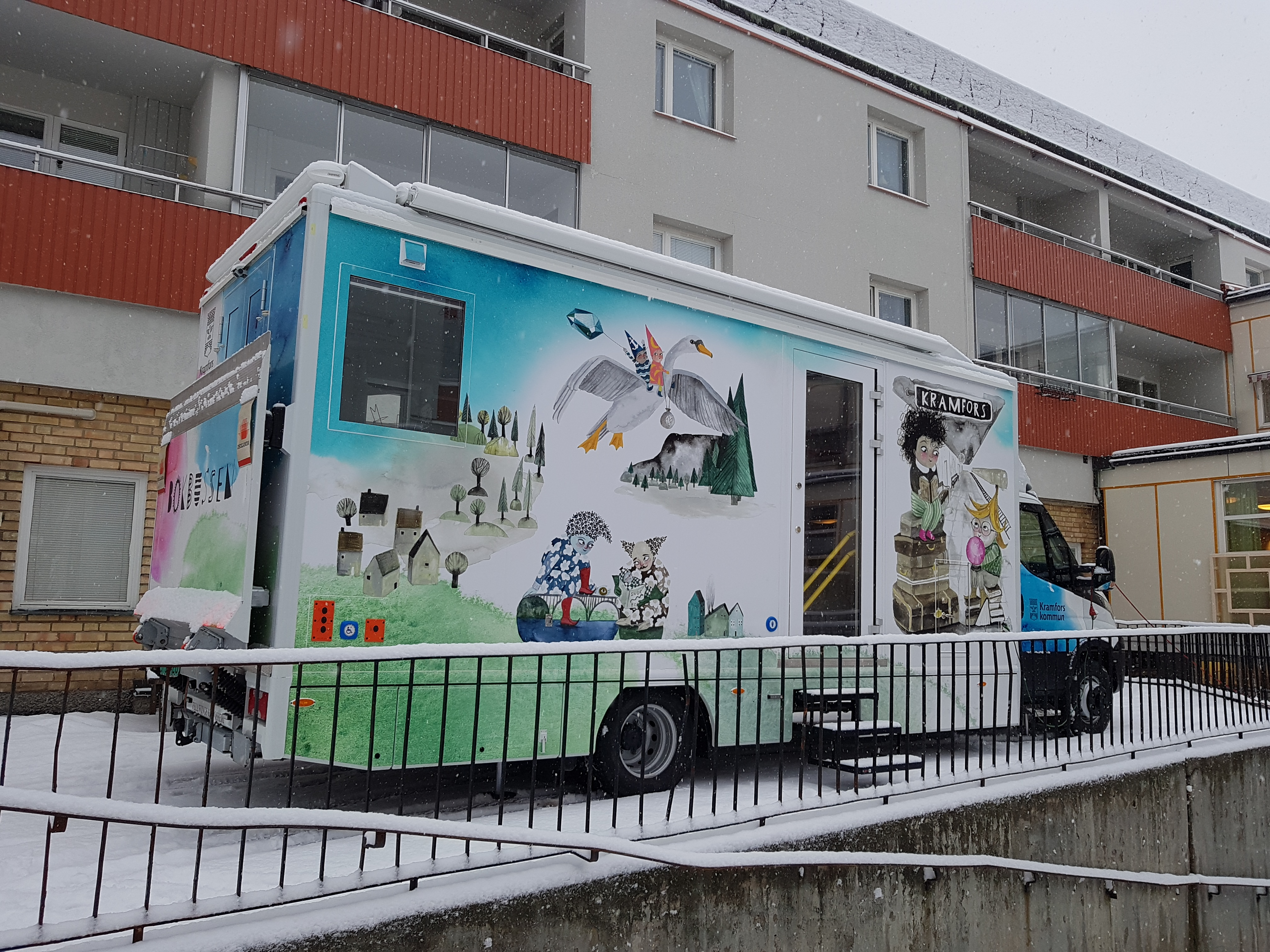 Bild på utsidan av Kramfors bokbuss